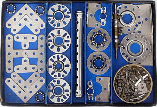 The picture is showing the ground carton of a set. Lid and manual are not to be seen. The parts are mostly arranged as in a new and unused set. The ball-bearing cups are shown from their inner and outer side. A ball-holder was put in a cup to show their function